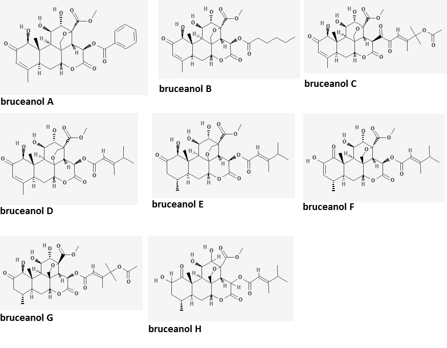 Bruceanol A-H